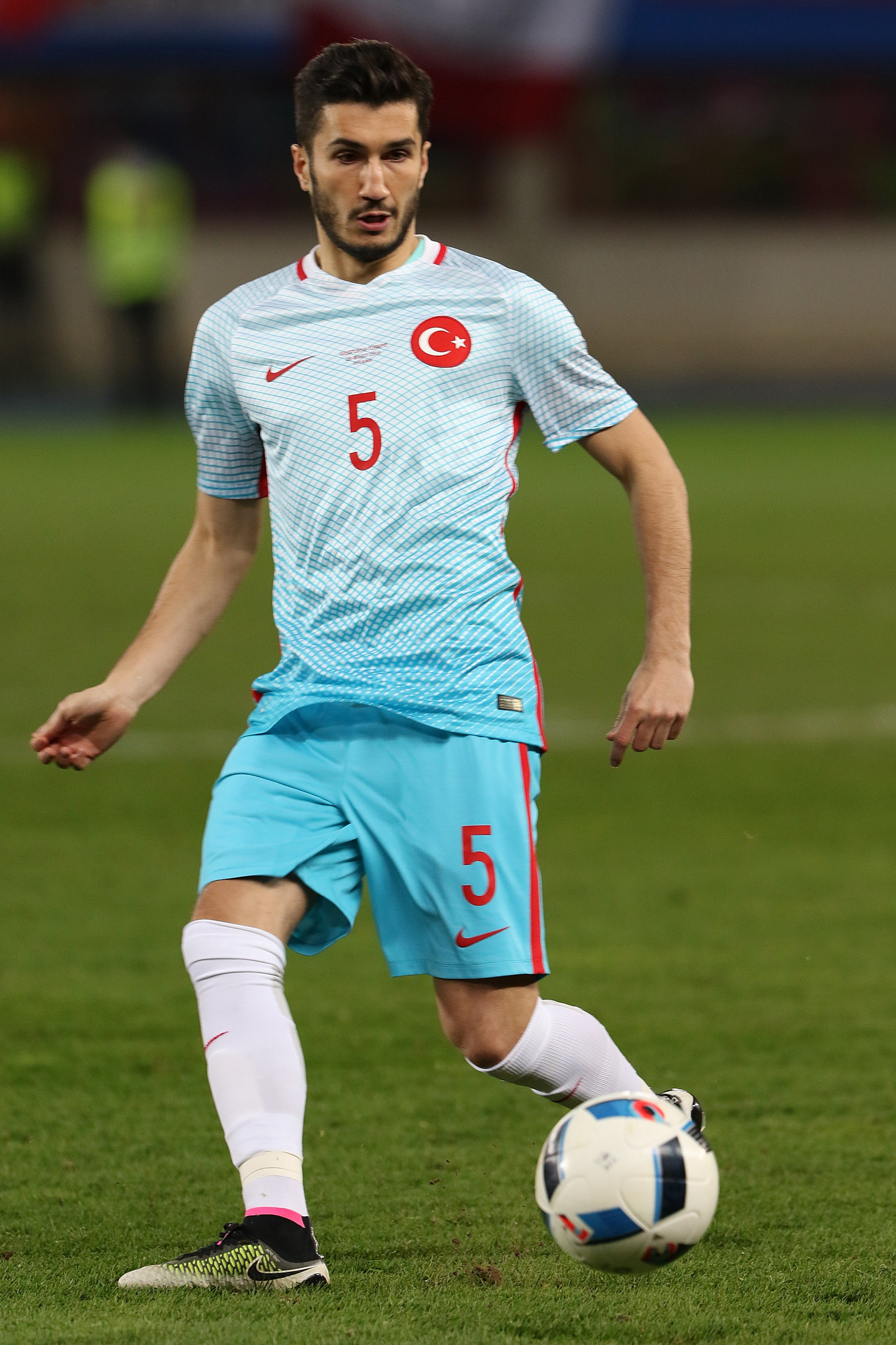 Friendly match – Austria (red shirts) vs. Turkey (blue shirts) 1–2 (1–1) on 2016-03-29 in Ernst-Happel-Stadion, Vienna – The photo shows Nuri Şahin (Borussia Dortmund)).